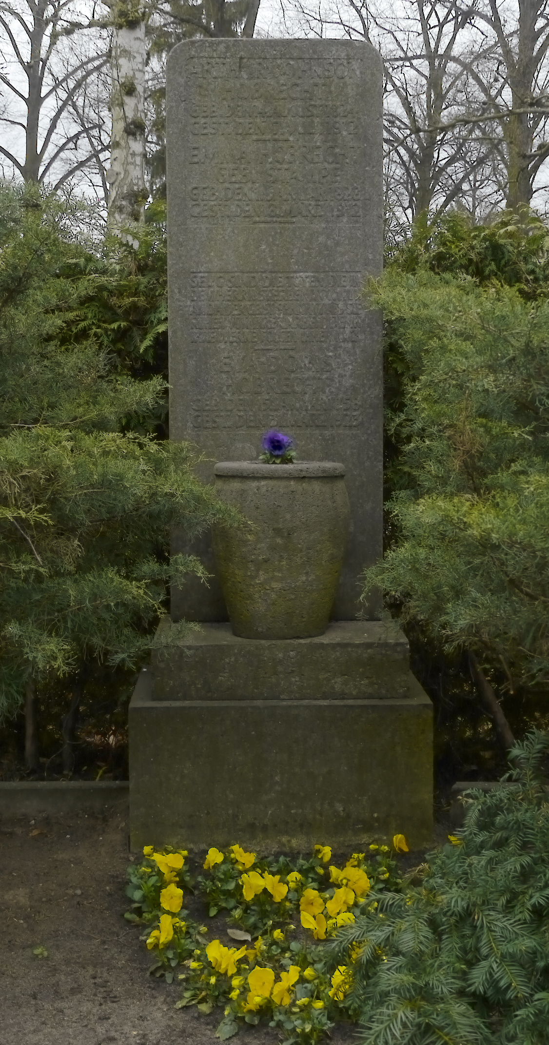 Tombstone of Arthur Hobrecht in Berlin-Lankwitz